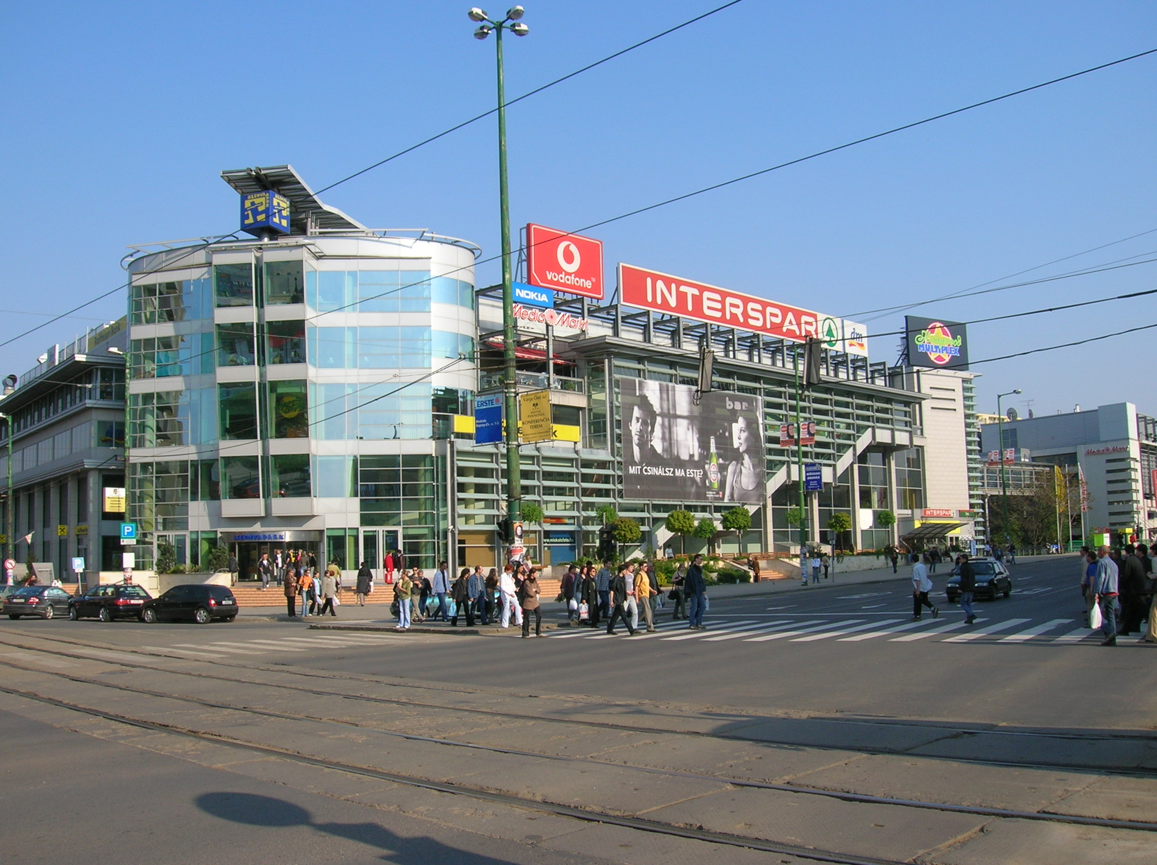 Szinvapark shopping mall, Downtown Miskolc, Hungary.